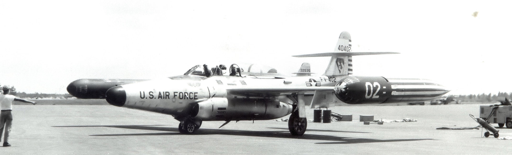 445th Fighter-Interceptor Squadron Northrop F-89H-5-NO Scorpion 54-0402 1956 Stationed at Wurtsmith AFB, MI. First F-89H model delivered